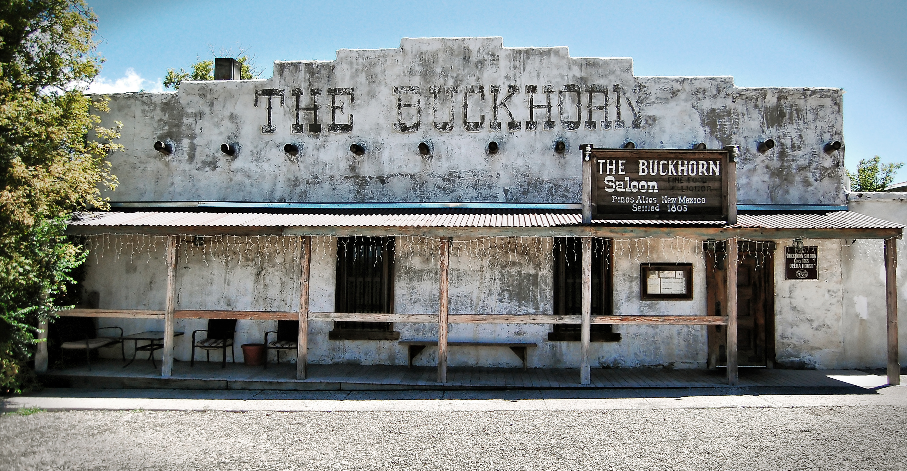 The main street of Pinos Altos is like a western movie set. Many of the old buildings date back to the 1800s. This particular saloon can be dated to around 1860.